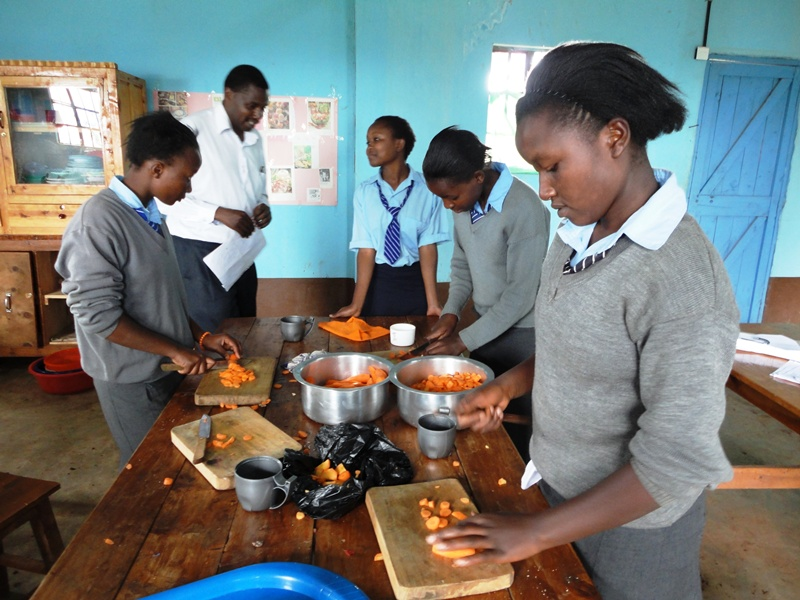 Keňa 2010